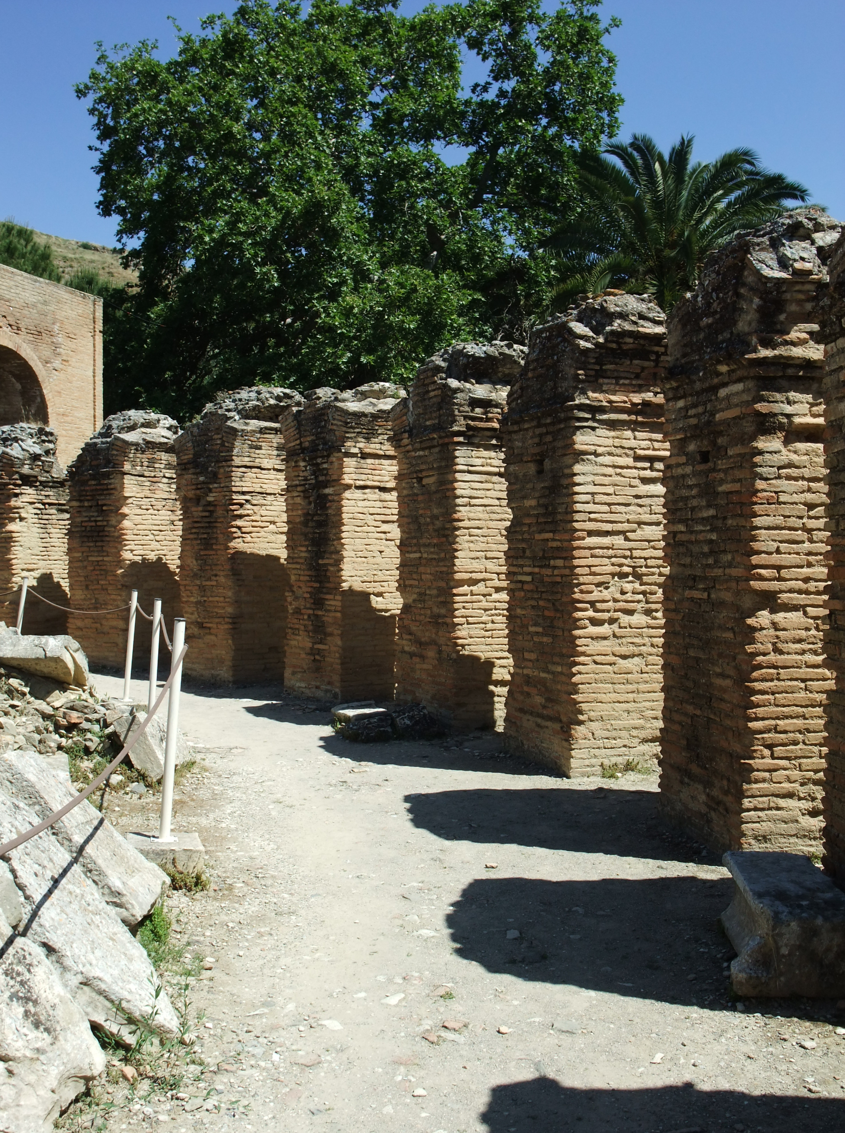 Odeon, excavation site Gortys, Crete, Greece